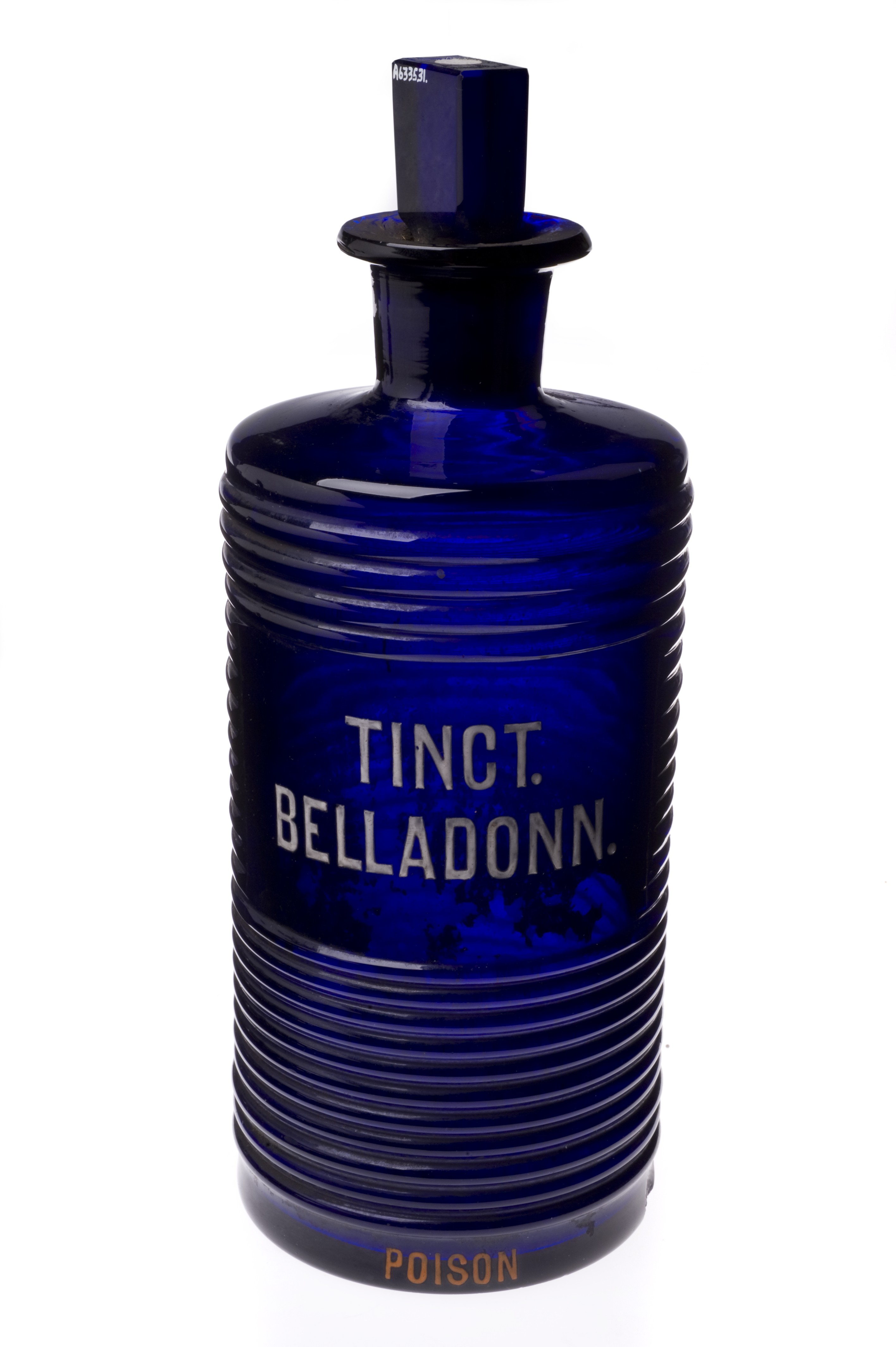 Belladonna or Deadly Nightshade is a plant whose name suggests it is poisonous. However, the roots and leaves have medicinal qualities – the leaves are a narcotic to induce sleep, and can be used as a diuretic and as a muscle relaxant. The roots and leaves were also used for plasters to relieve aches and pains. The cobalt blue coloured glass was blown with a ridged design. It is thought that poison bottles had distinctive textures and colours so they could easily be identified by touch and by sight. A tincture is an alcoholic solution of a medicine. maker: Unknown maker Place made: England, United Kingdom Wellcome Images Keywords: narcotic; belladonna; Atropa belladonna; bottle; diuretic; Diuretics